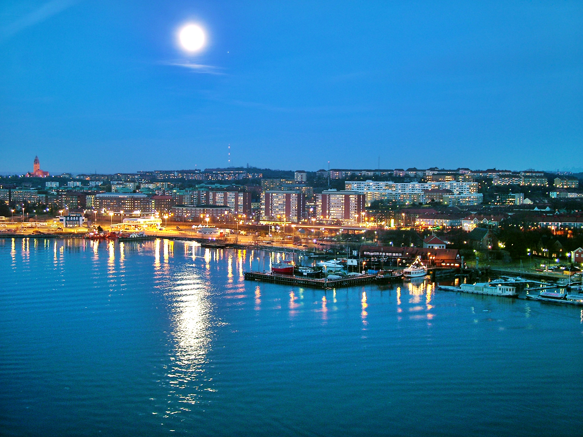 Göteborg in moon light from Älvsborg bridge.